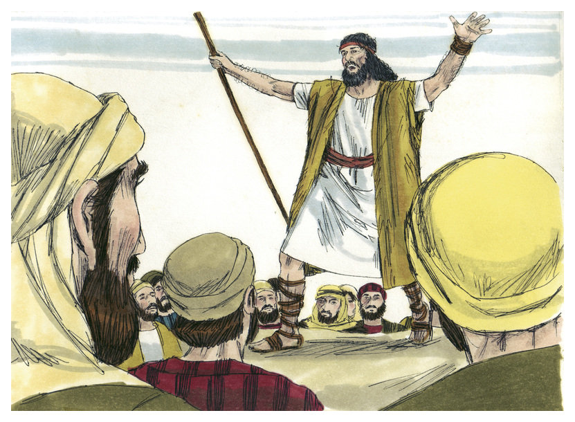 Biblical illustration of Gospel of Mark Chapter 1